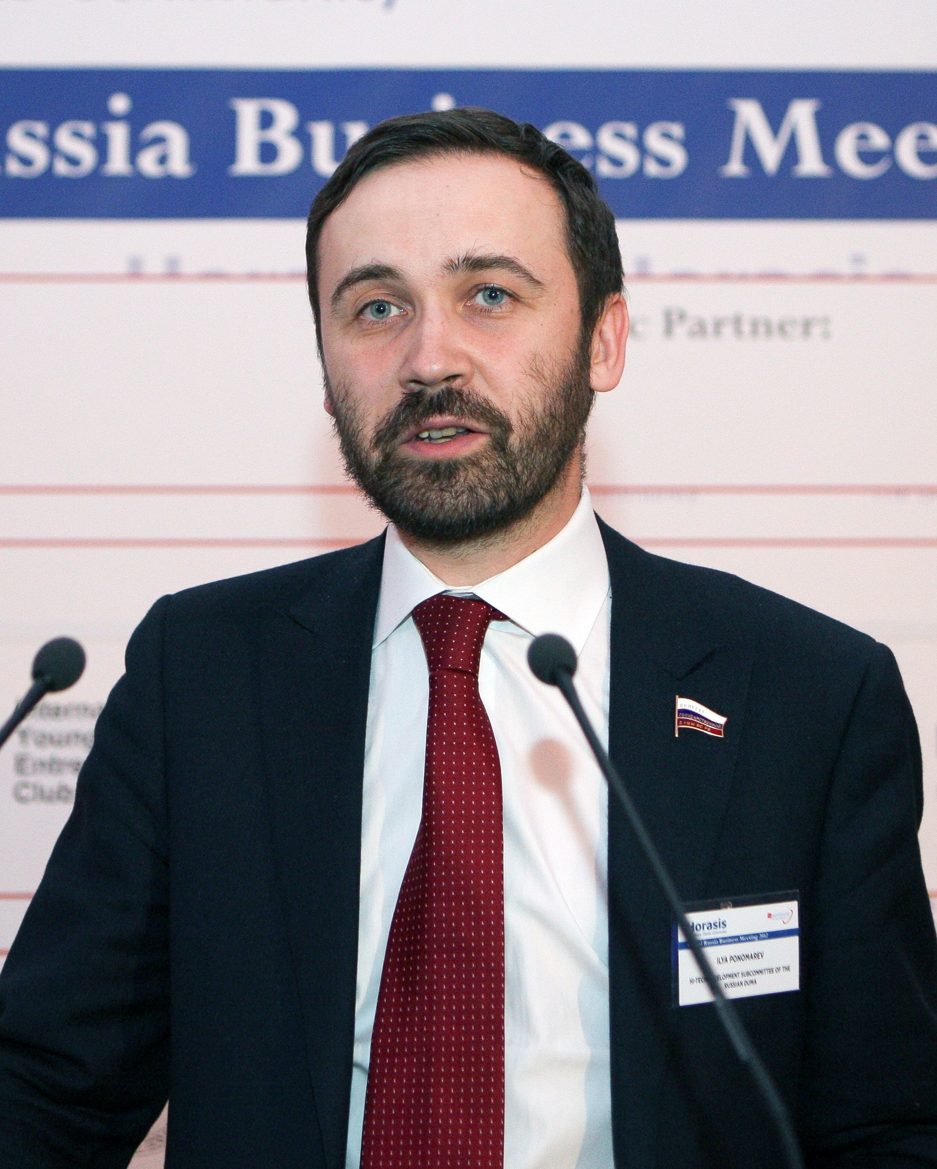 Ilya Ponomarev, Chairman, Hi-Tech Development Subcommittee of the Russian Duma, Russia, 2012 Horasis Global Russia Business Meeting